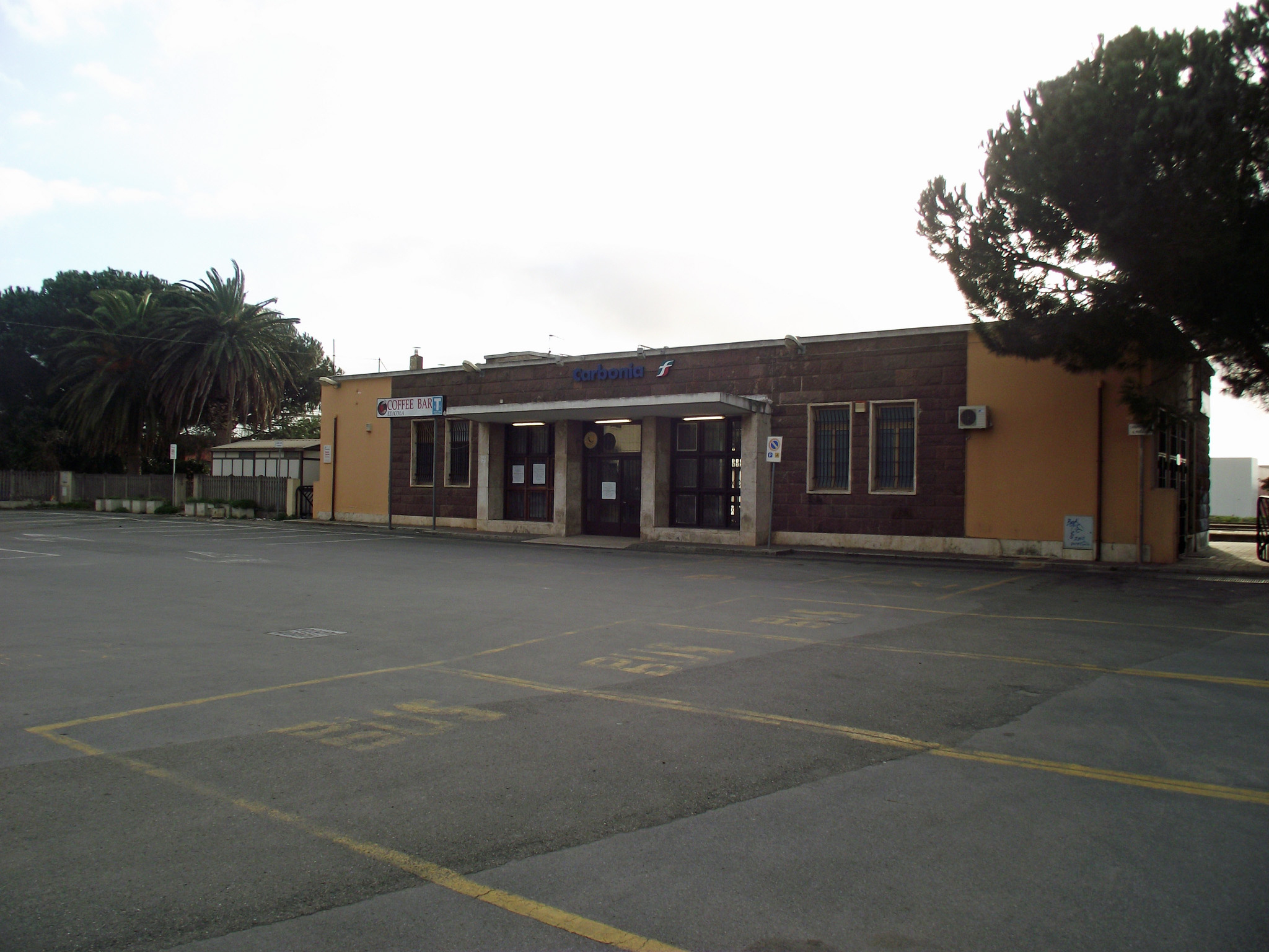 The Carbonia Stato railway station seen from the park, in Carbonia, Sardinia, Italy.